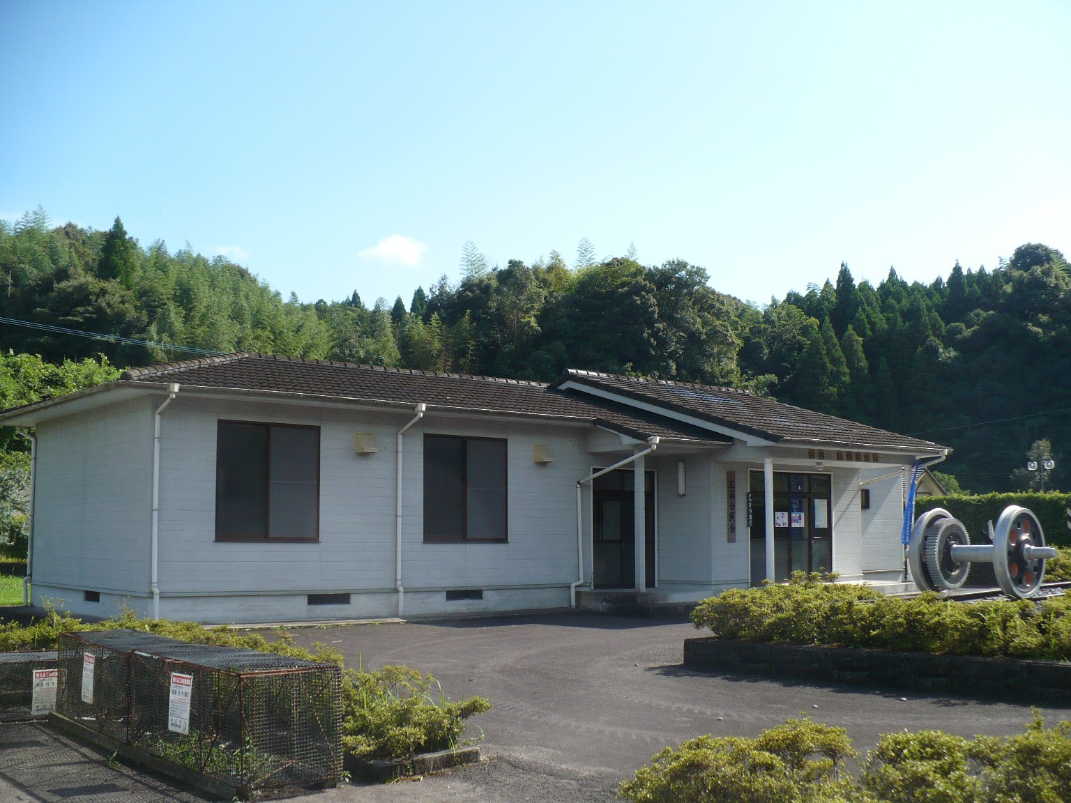 Tsuruda railway memorial, Satsuma, Kagoshima, Japan. The site was Satsuma-Tsuruda station of JNR Miyanojo line.